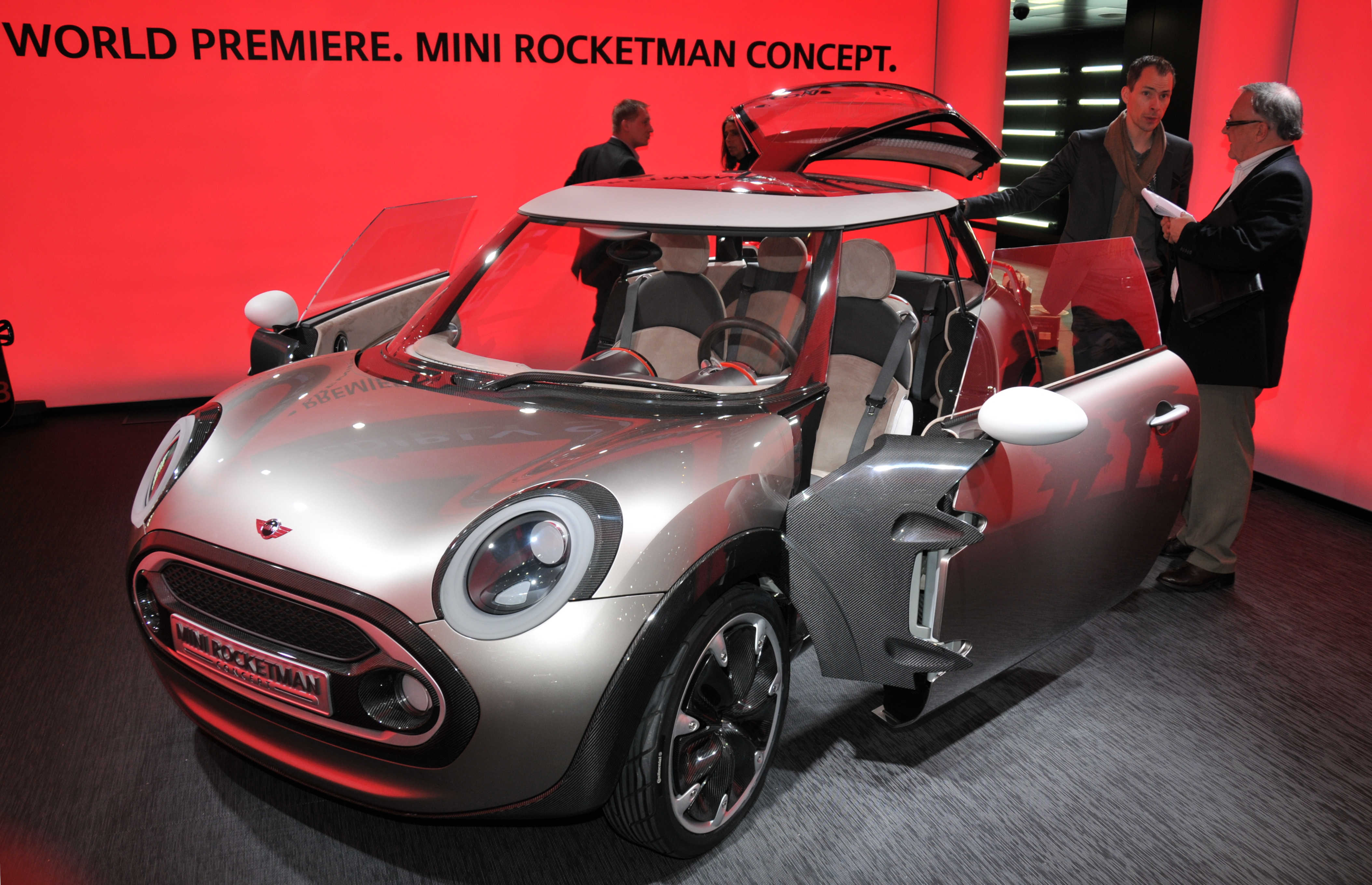 The MINI Rocketman at the Geneva Motor Show. More pictures and info